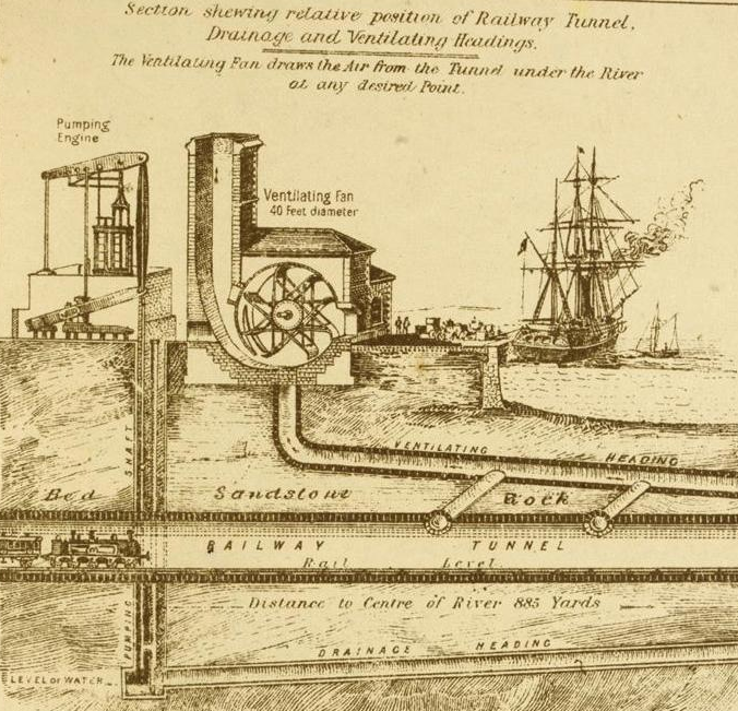 An illustration showing the machinery used to ventilate and drain the Mersey Railway Tunnel when it first opened in January 1886.